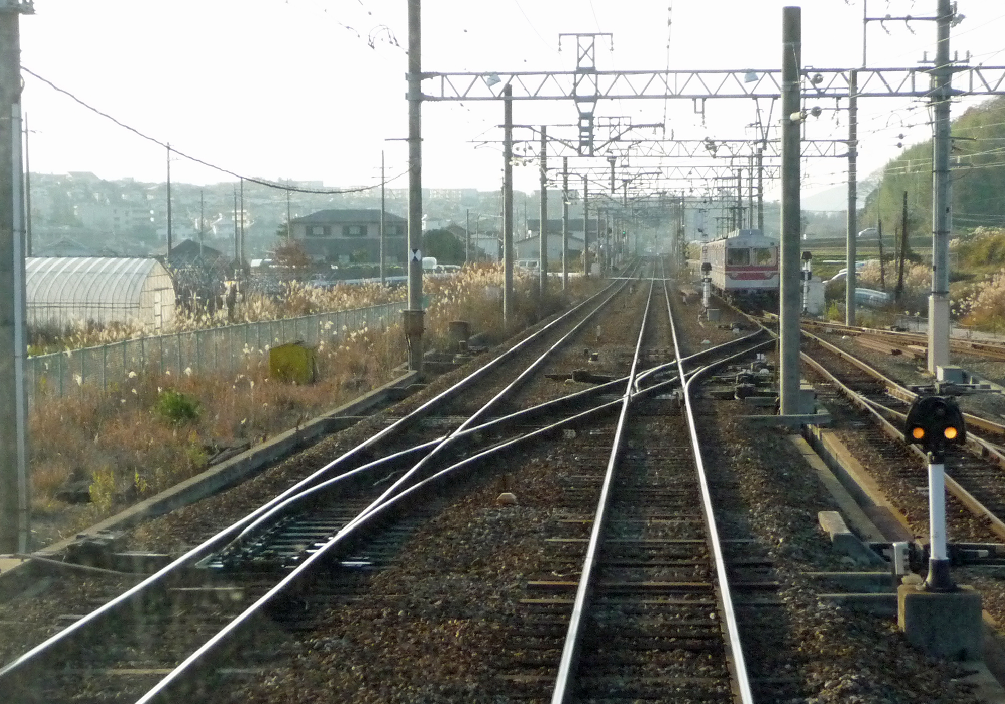 Mizu Interlocking on Shintetsu Ao Line